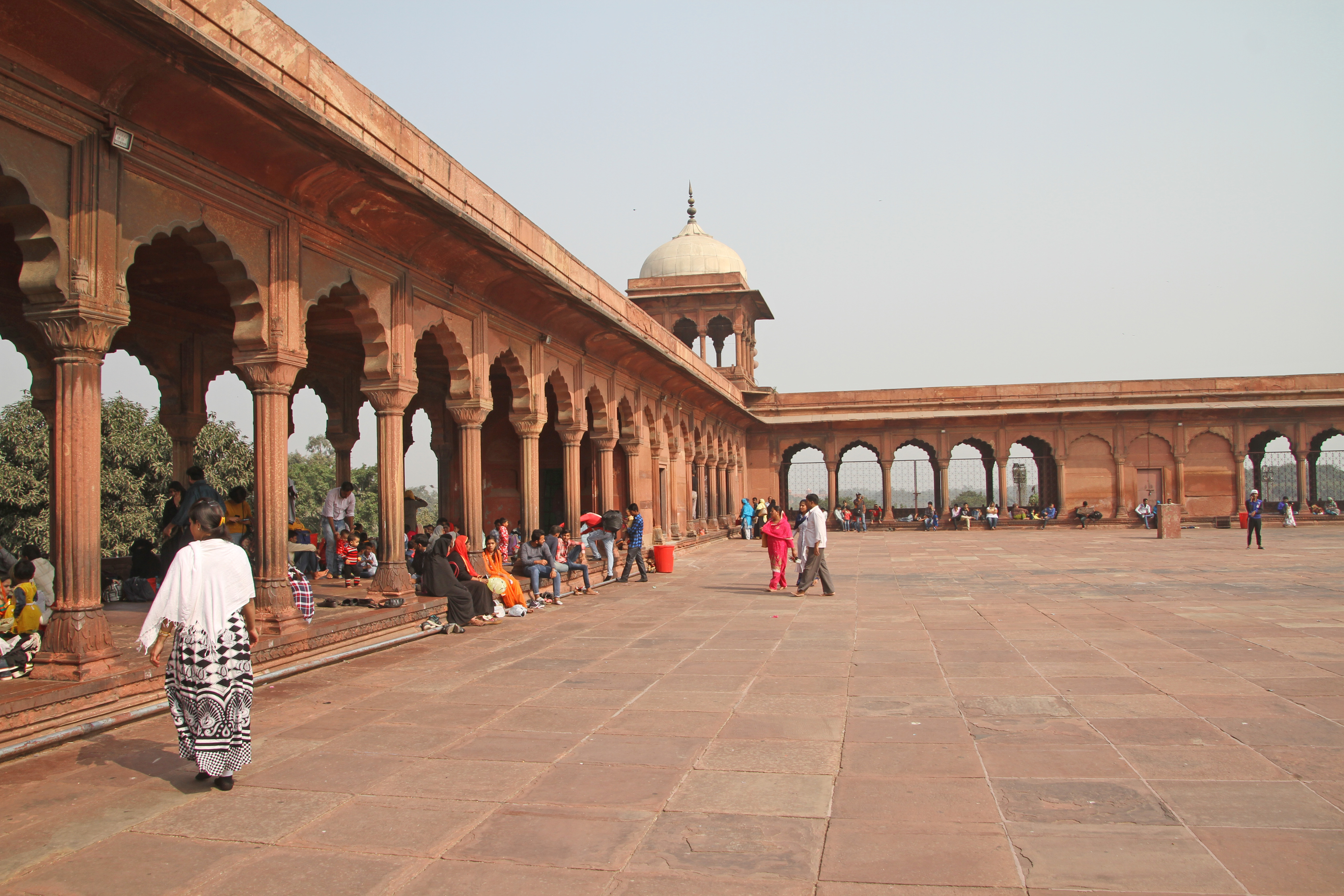 Jama Masjid, Delhi